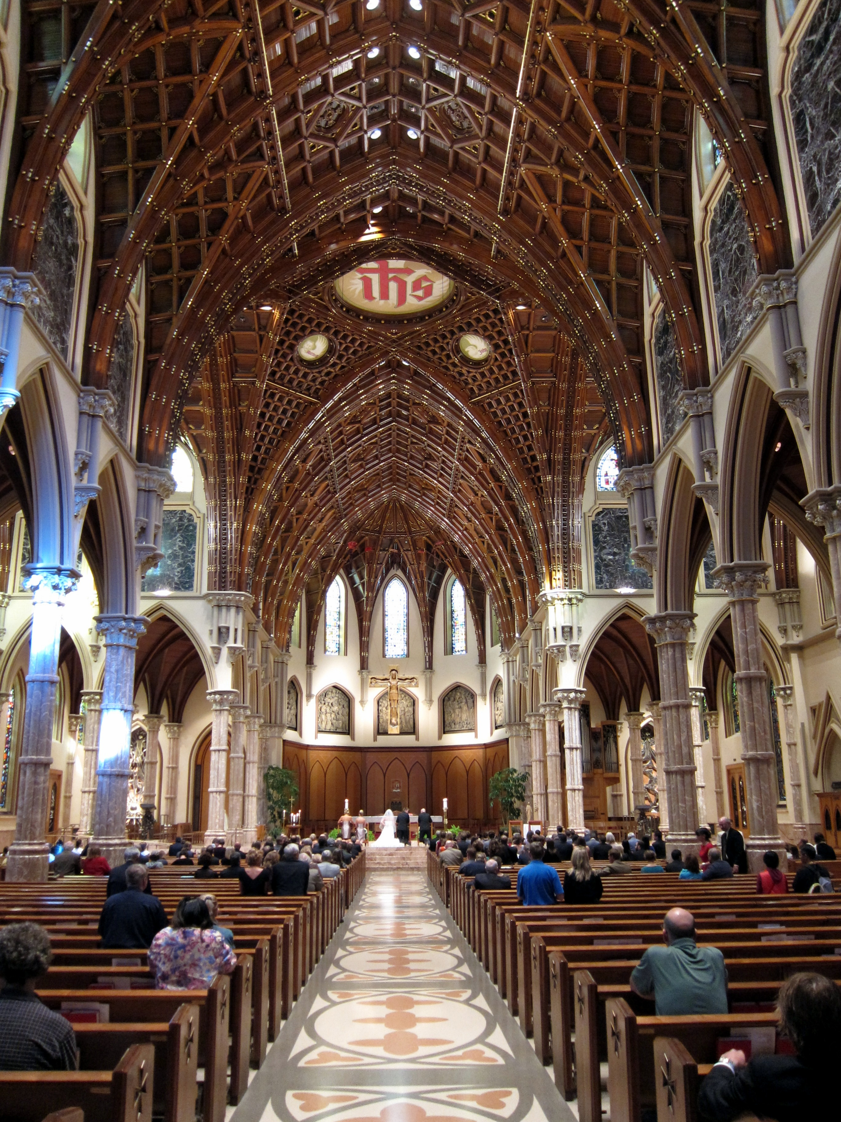 Holy Name Cathedral (Chicago, Illinois) - interior, nave during a wedding